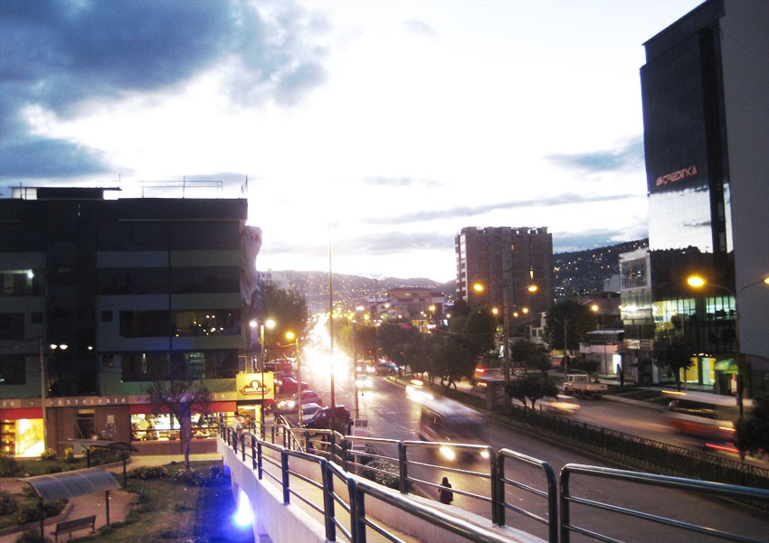 Financial Centre of the City, Av. de la Cultura, Cusco